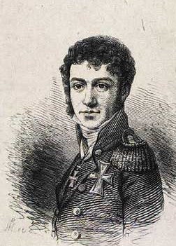 Jørgen Conrad de Falsen